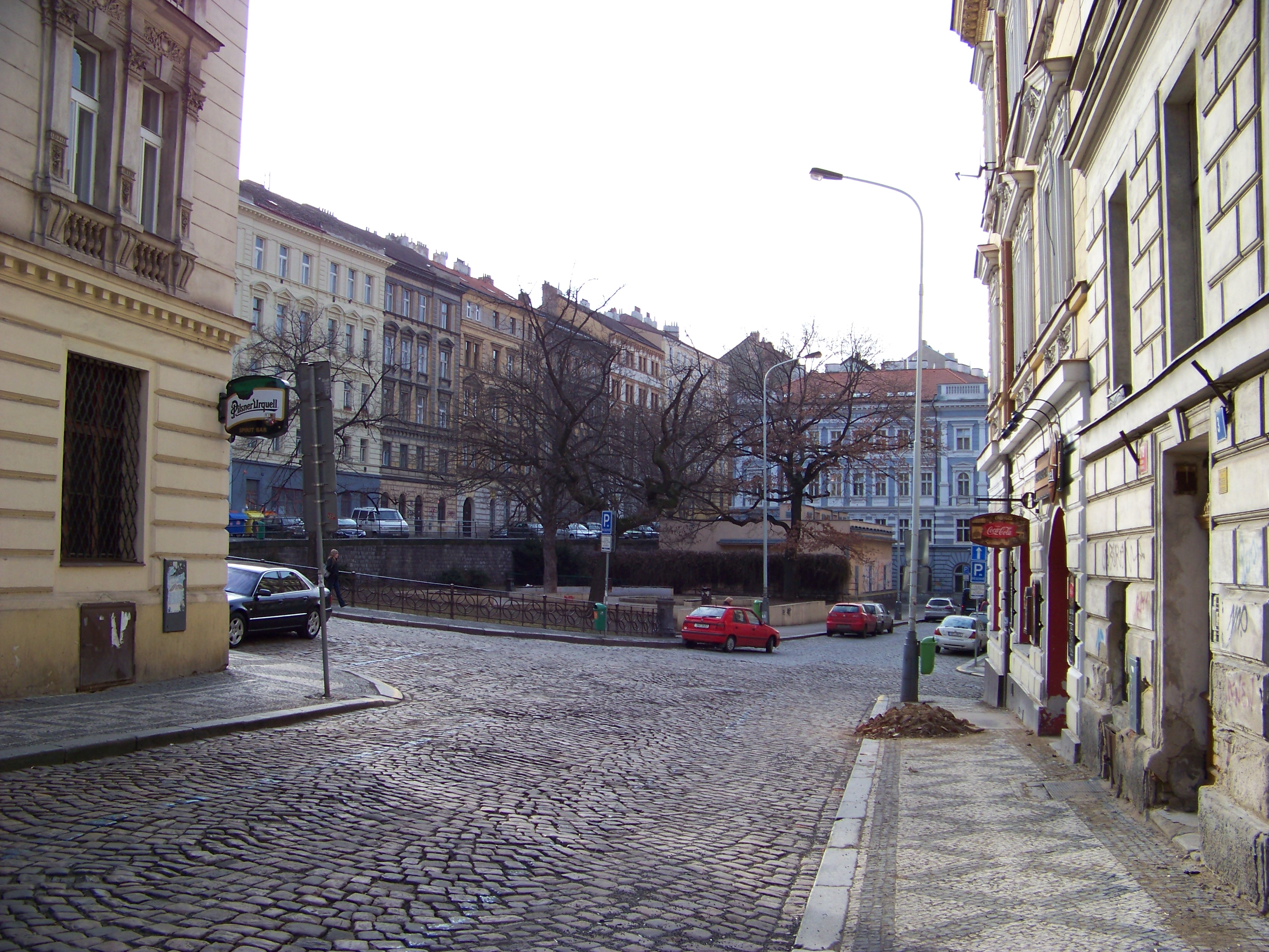 Prague-Žižkov, the Czech Republic. Konstanz Square, seen from Dalimilova street. - Google Maps - Google Earth